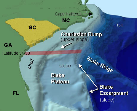 Diagram of the continental shelf and slope of the southeastern United States leading down to the ocean floor.